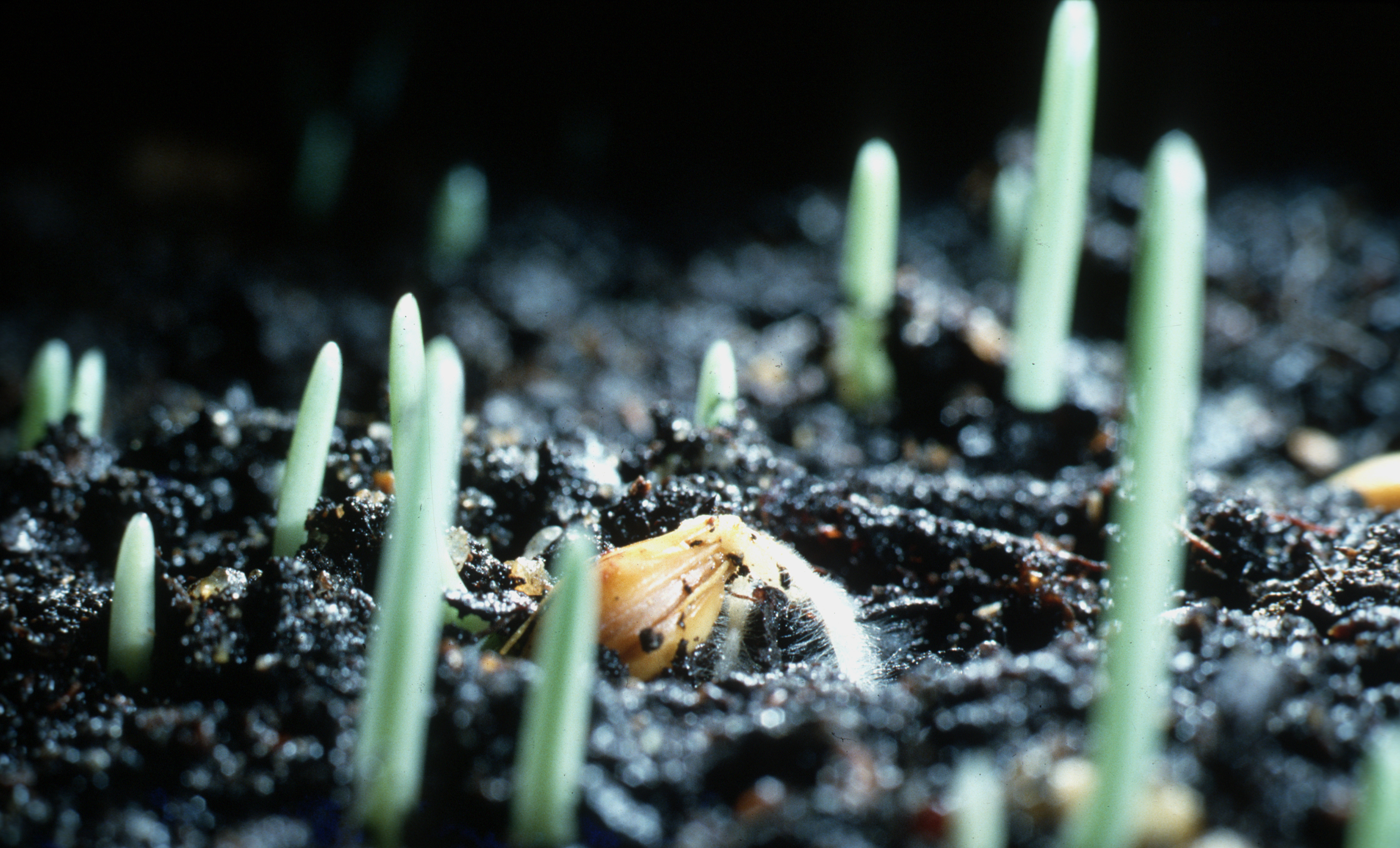 Bulbs act as an underground storage organ for some plants. Here a bulb can be seen about to produce it's first shoot. It is surrounded by more mature strands of grass.